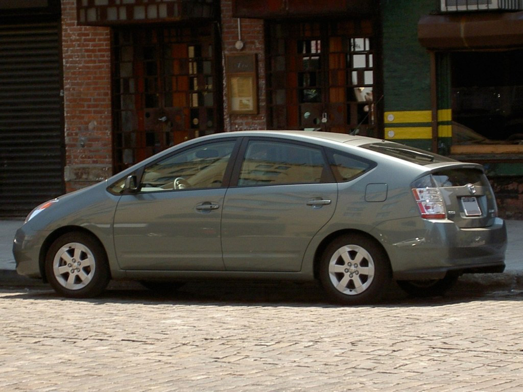 The second generation of Toyota Prius, photographed in New York City